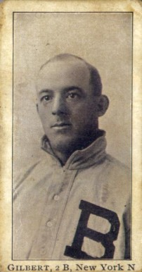 Major League Baseball player Billy Gilbert